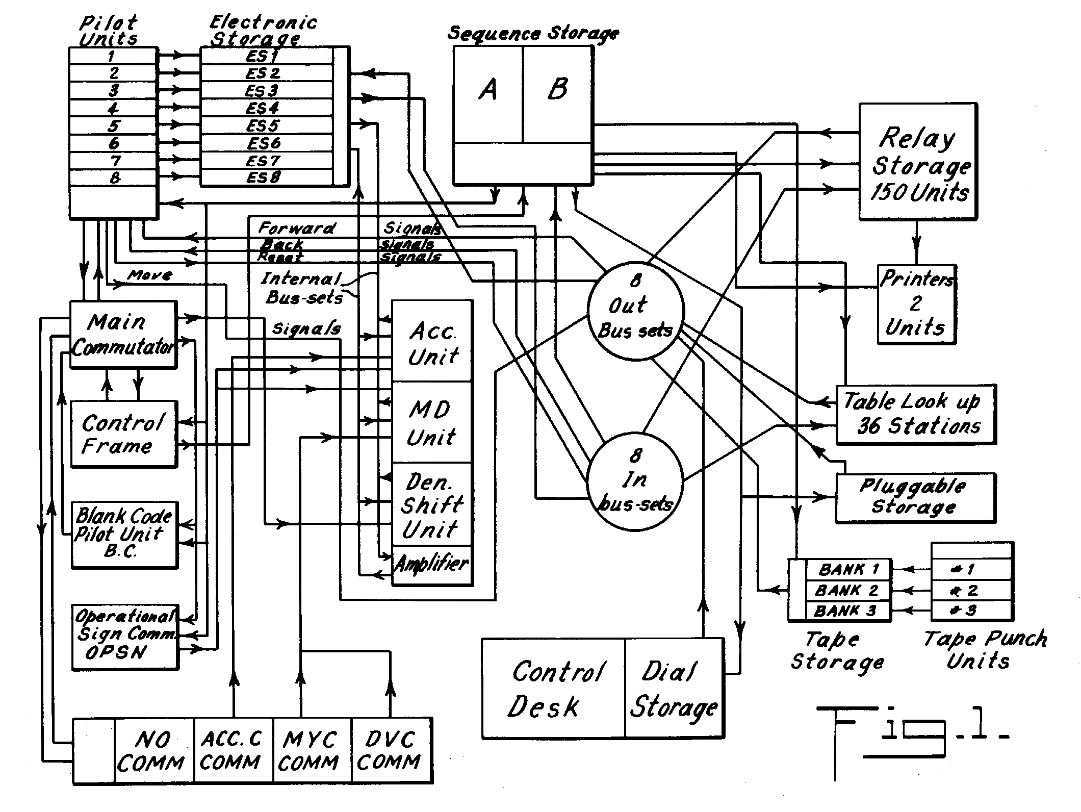 Block diagram of the IBM Selective Sequence Electronic Calculator (SSEC). Designed starting in late 1944, it was demonstrated in January 1948. It was the first computer to be able to treat its own insrtuctions exactly as data. However, most of its memory was in the form of relays and punched tapes, so the capability was not used except rarely. It was the last large electro-mechanical calculator built.